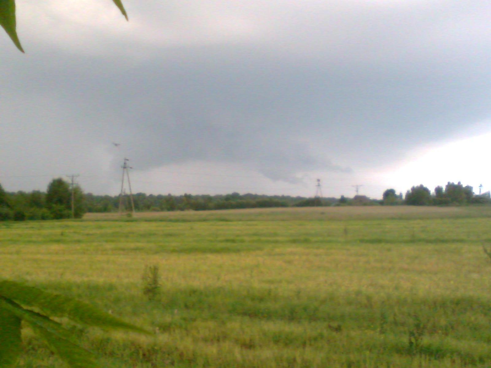 tornado is Skaryszew